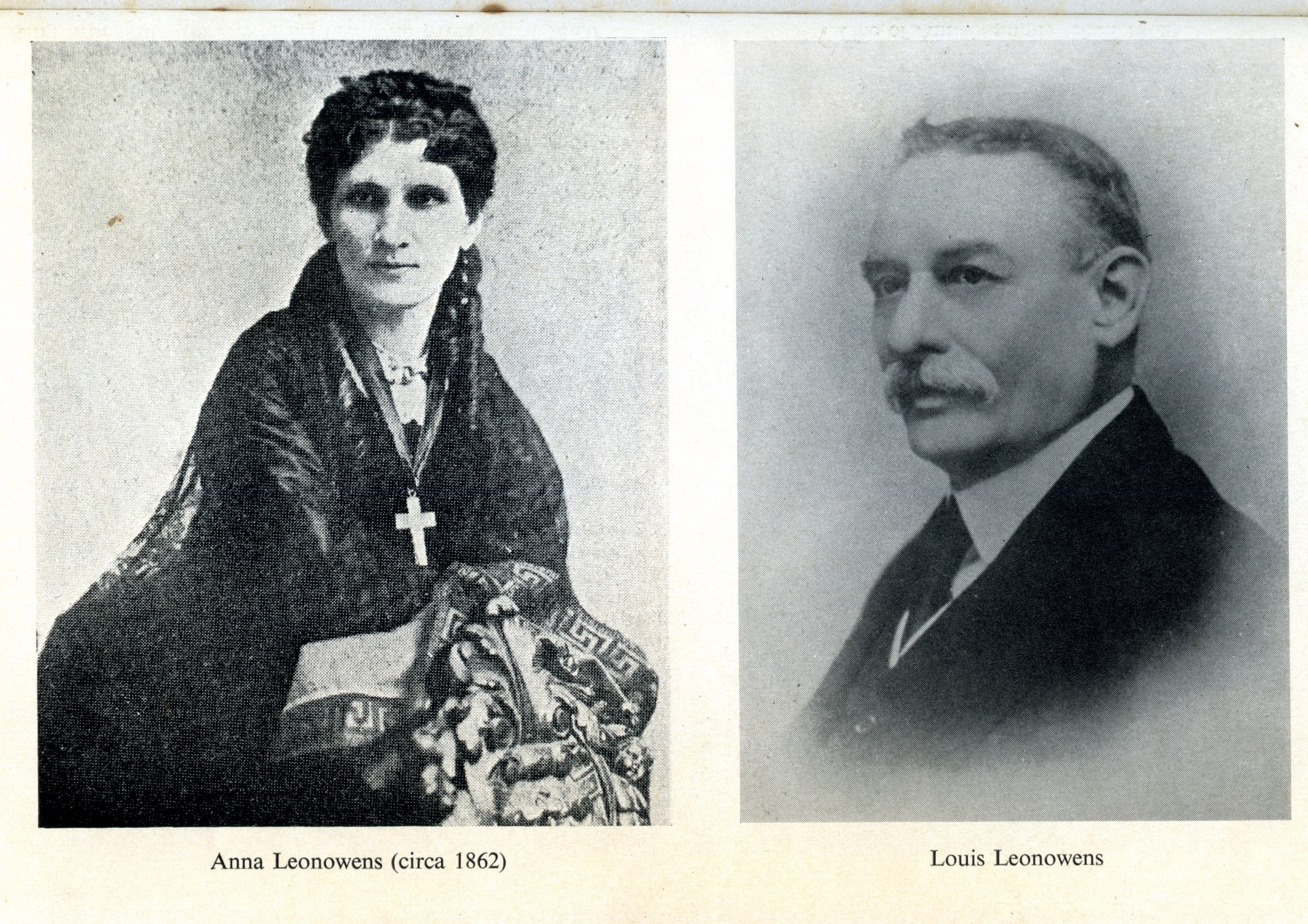 Anna Leonowens (c. 1862) and her son Louis Leonowens